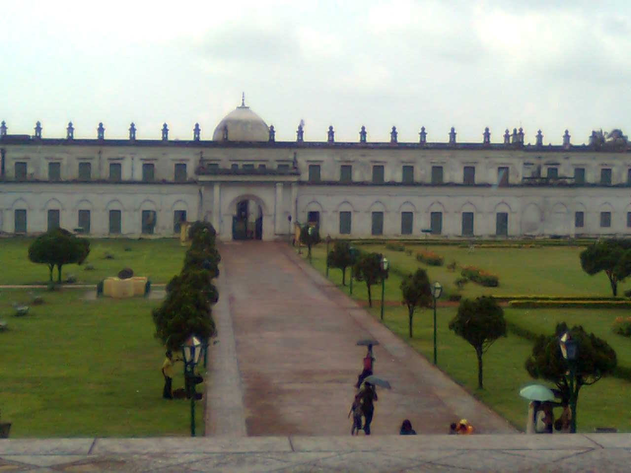 The Nizamat Imambara, opposite the Hazarduari Palace.